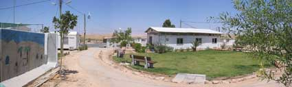 A picture of Mevo'ot Yericho